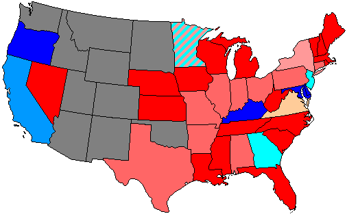 Summary of party control of U.S. house seats in the 41st United States Congress following election. Stripes indicate a tie between two or more parties. Legend: 80.1-100% Democratic seat majority 60.1-80% Democratic seat majority 60% or less Democratic seat plurality 60% or less Republican seat plurality 60.1-80% Republican seat majority 80.1-100% Republican seat majority 60.1-80% Conservative seat majority